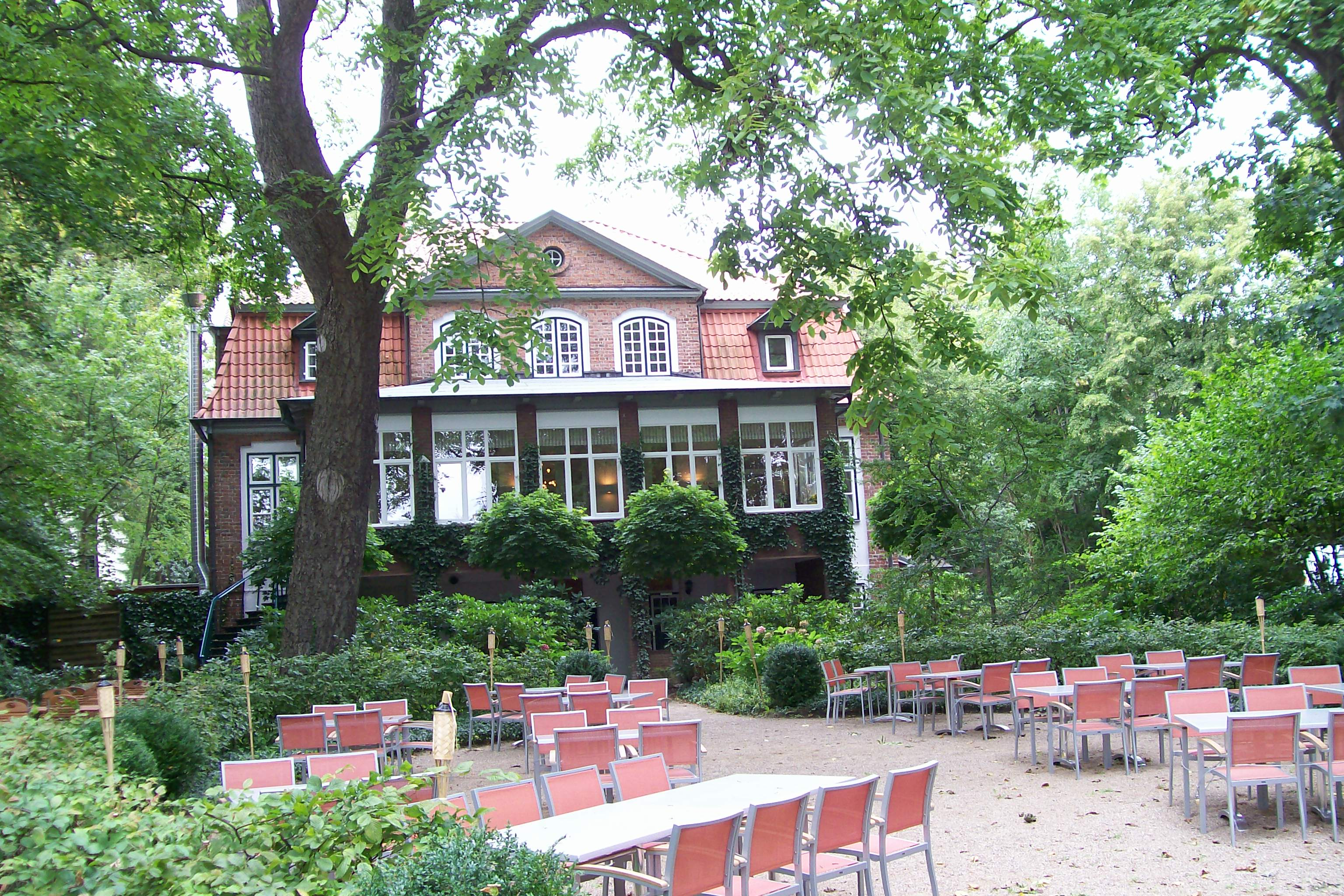 Lachswehr is a traditional restaurant in Lübeck built by Johann Adam Soherr in 1771 at river Trave, garden, view from Trave